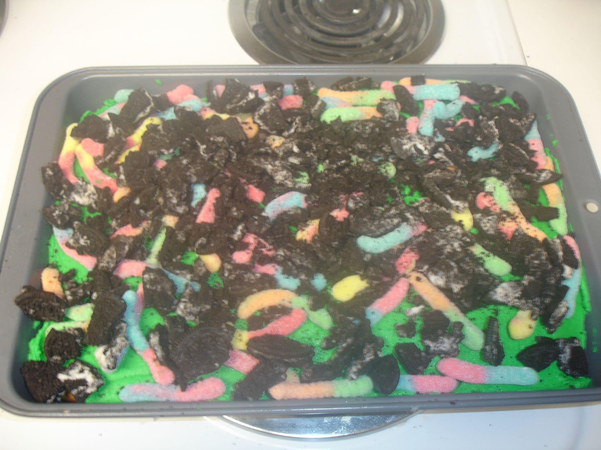 "Cake" assembled from Oreo cookies and gummy worms candy